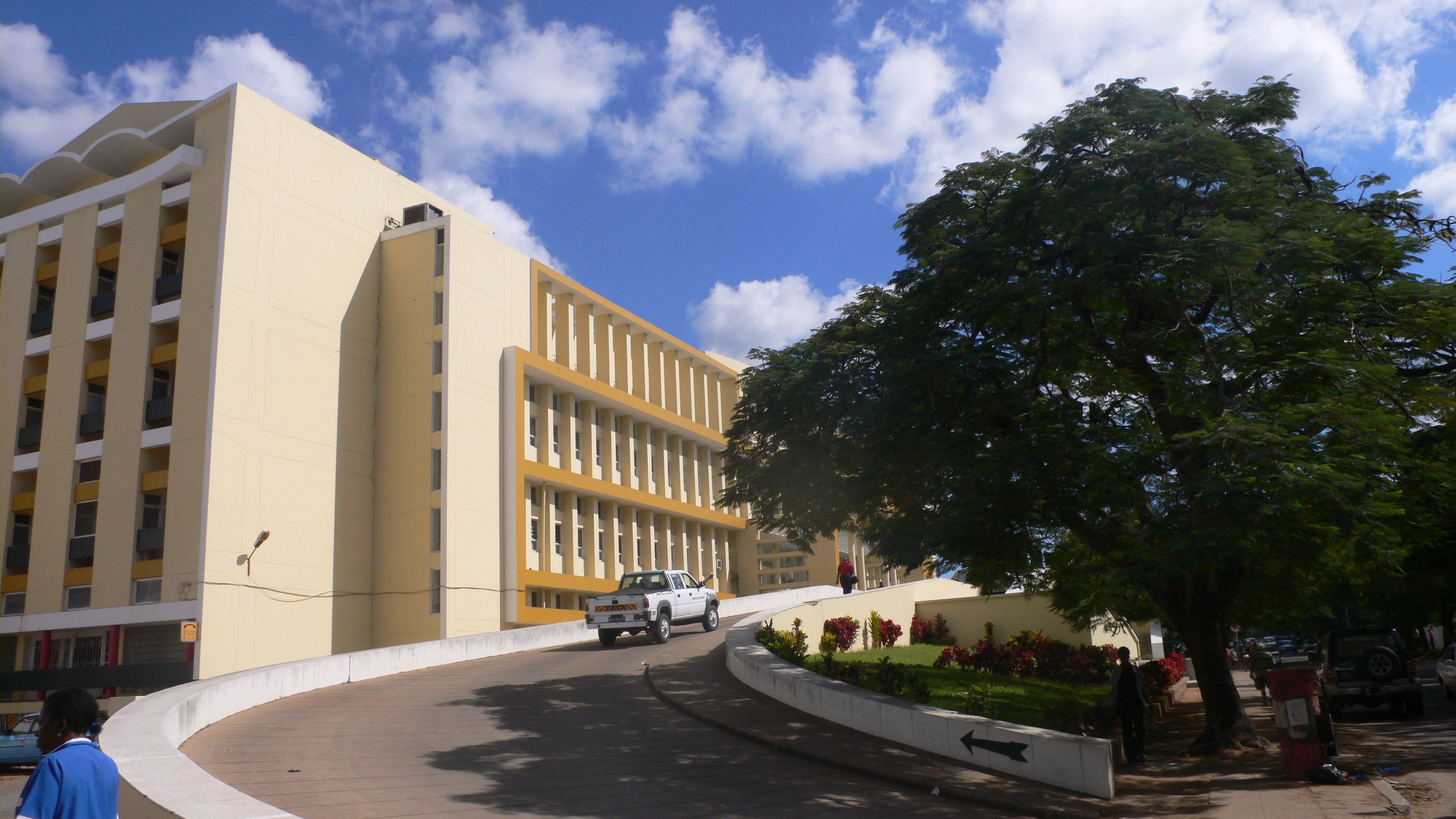 Central Hospital in Maputo, Mozambique